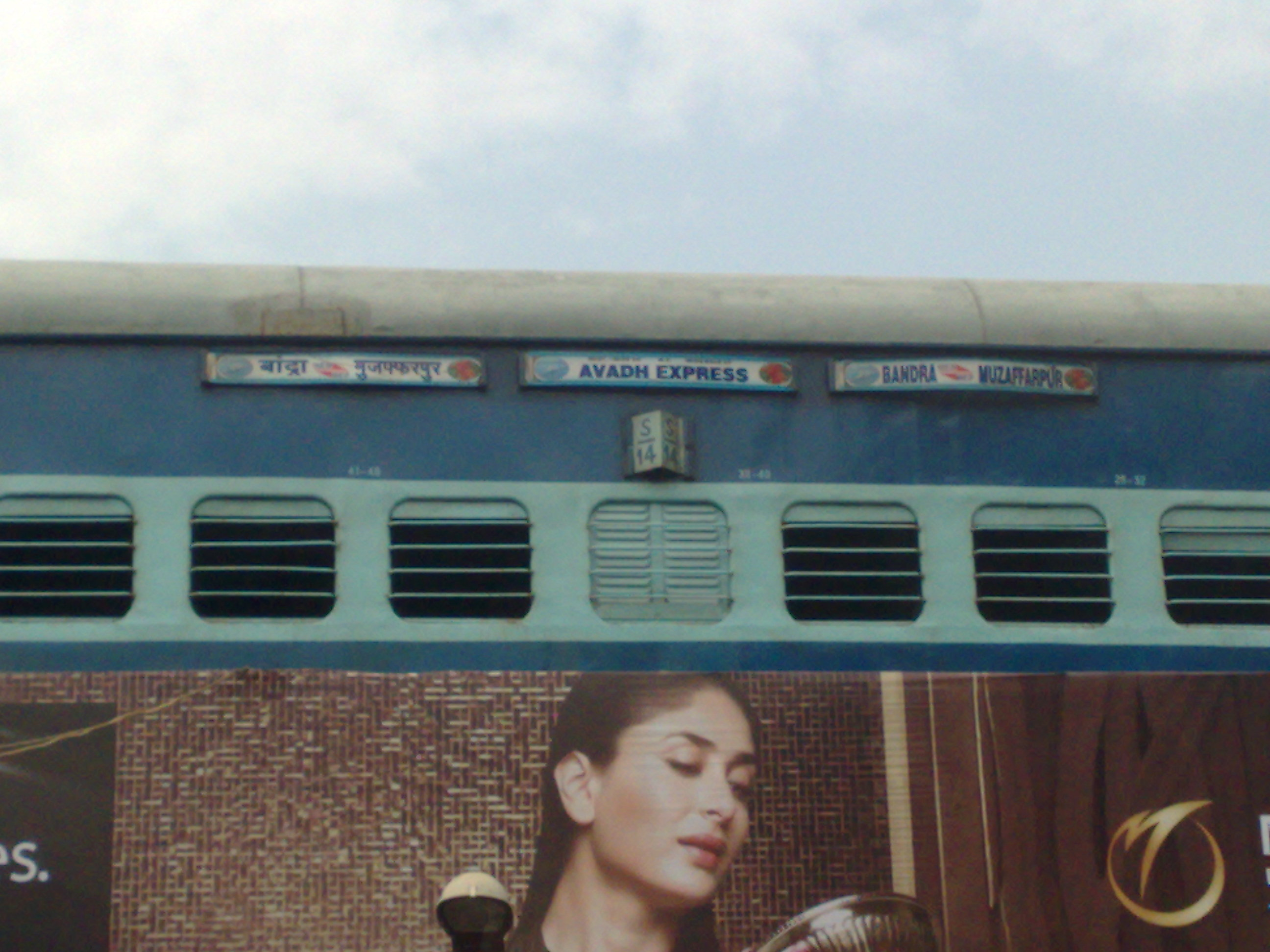 19039 Avadh Express